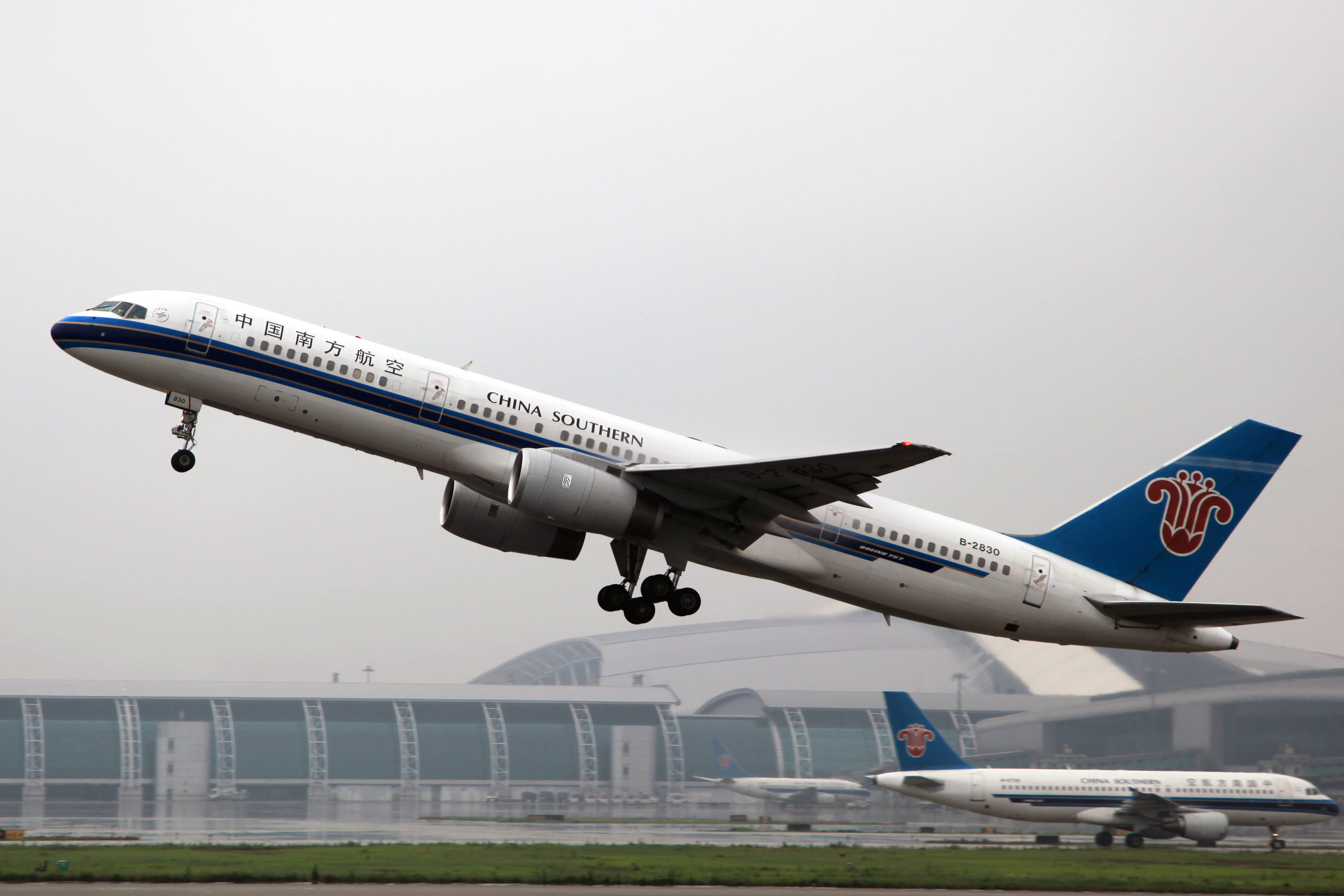 China Southern Airlines Boeing 757-28S B-2830 @ Guangzhou Baiyun International Airport